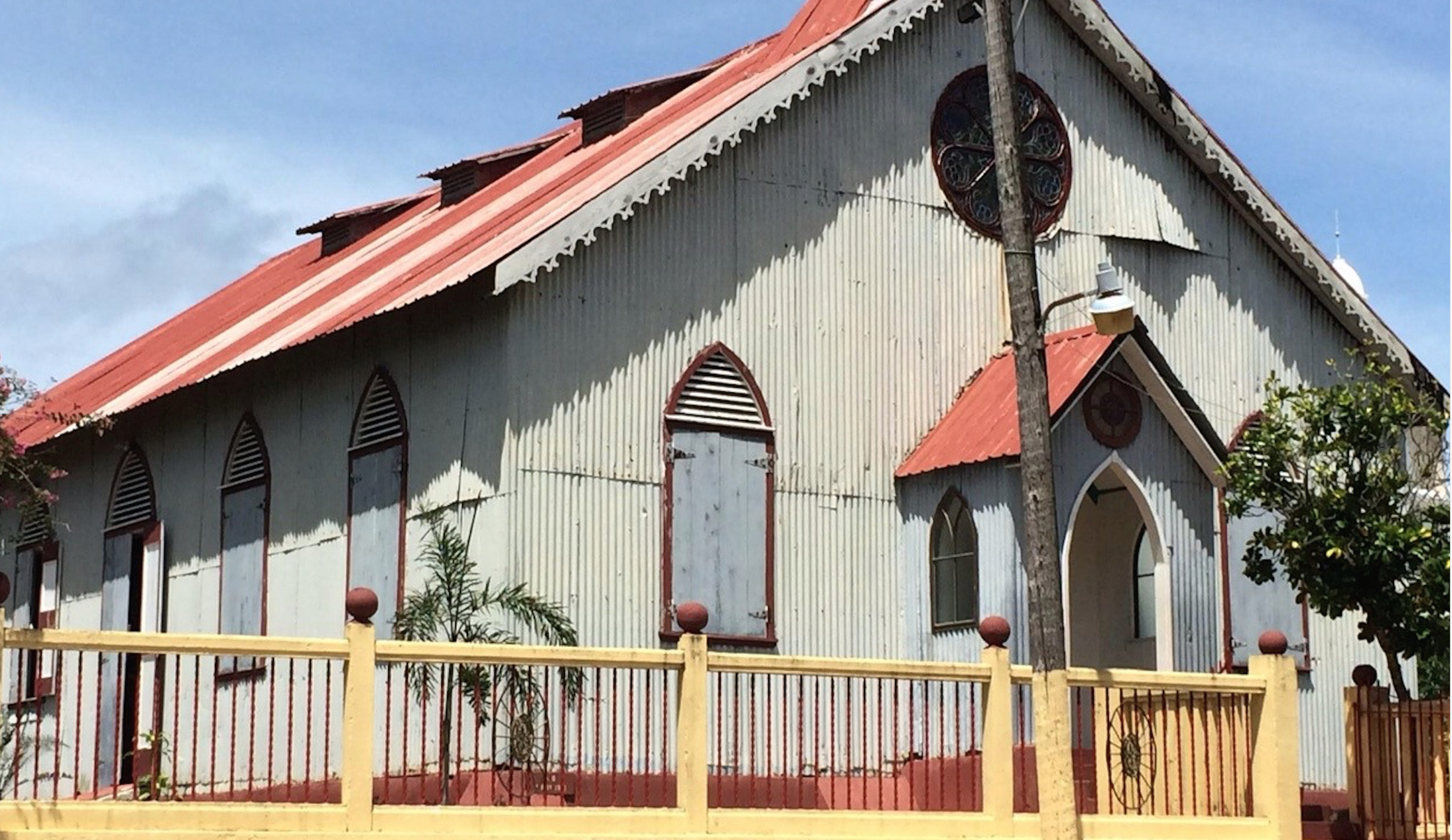 This is La Chorcha, or St. Peter's Church, the old Wesleyan and now Evangelical church in Santa Barbara of Samaná.